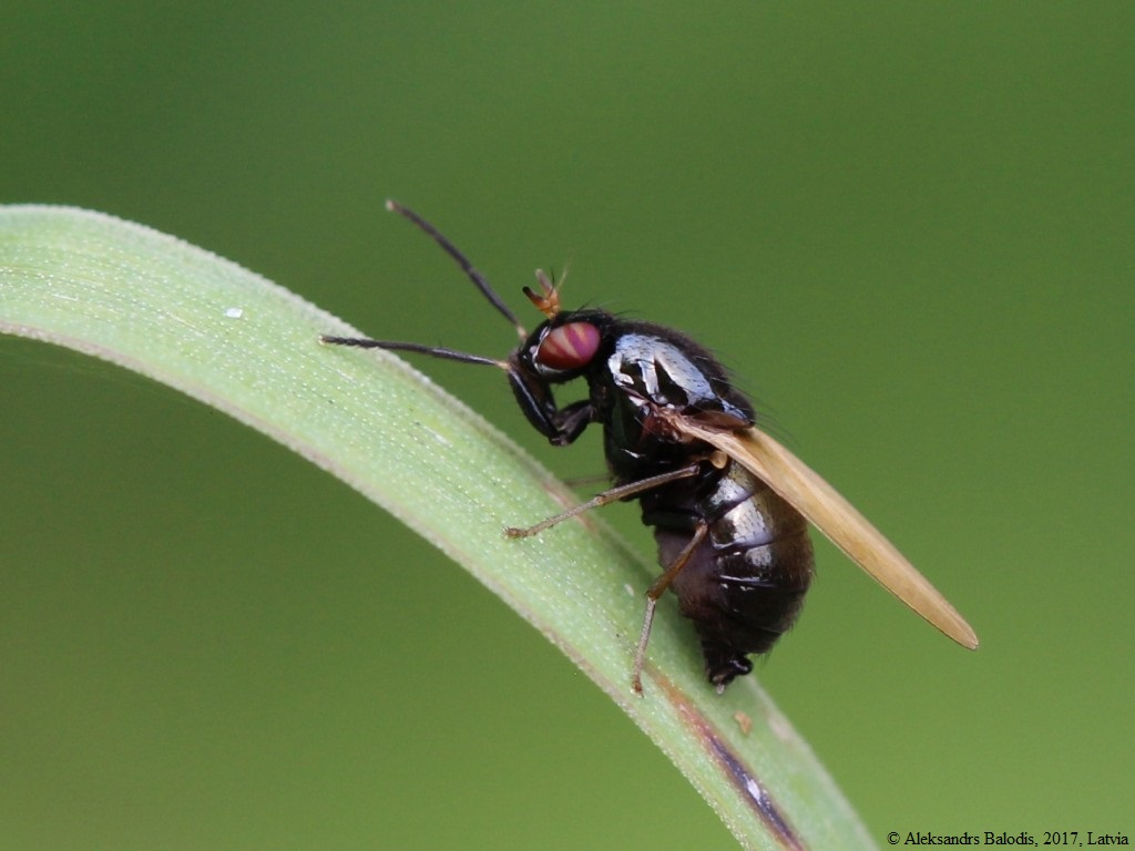 Calliopum aeneum